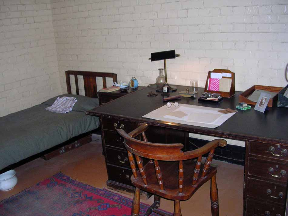 A shot from the Cabinet War Rooms, London. Desk of the Minister for Information.